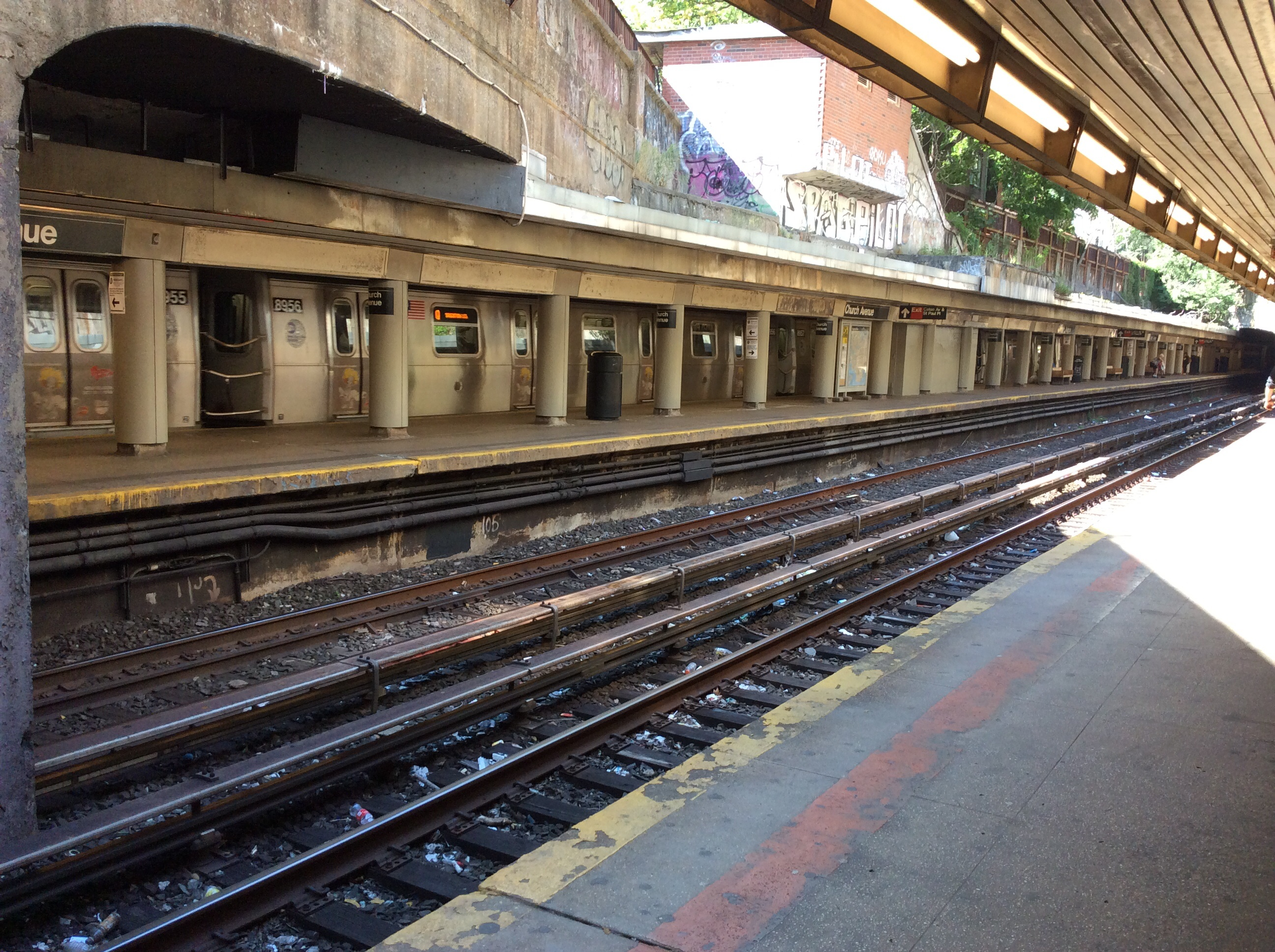 Southbound Platform at Church Avenue, looking north